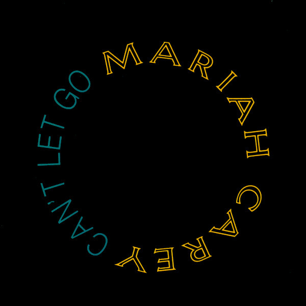 Front cover of "Can't Let Go" by Mariah Carey (US CD promotional material)